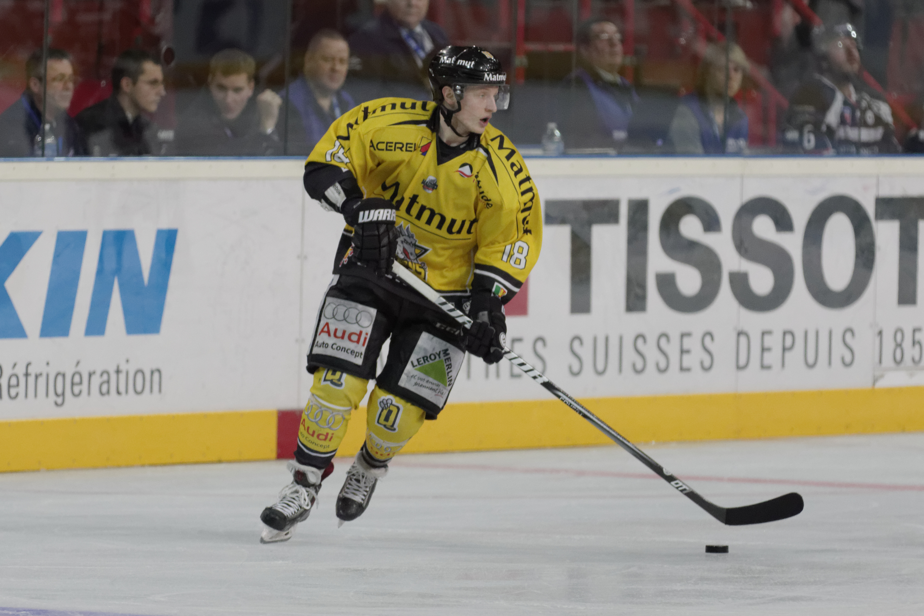 Final of the Ice Hockey French Cup 2014.